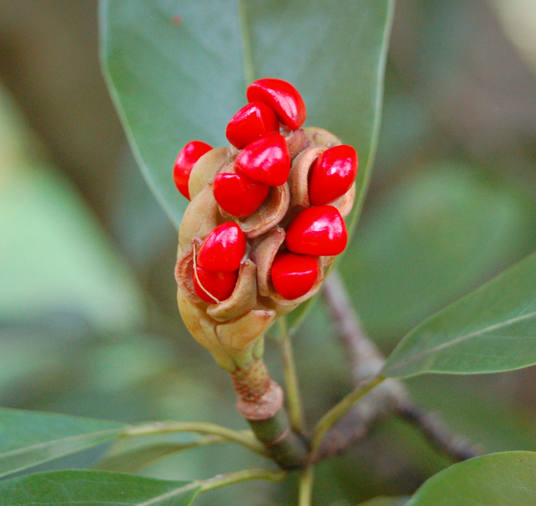 Photograph of a ripe fruit of the Sweetbay Magnoliaen (Magnolia virginiana en ), with the seeds exposed. Photo taken at the Tyler Arboretum where it was identified.